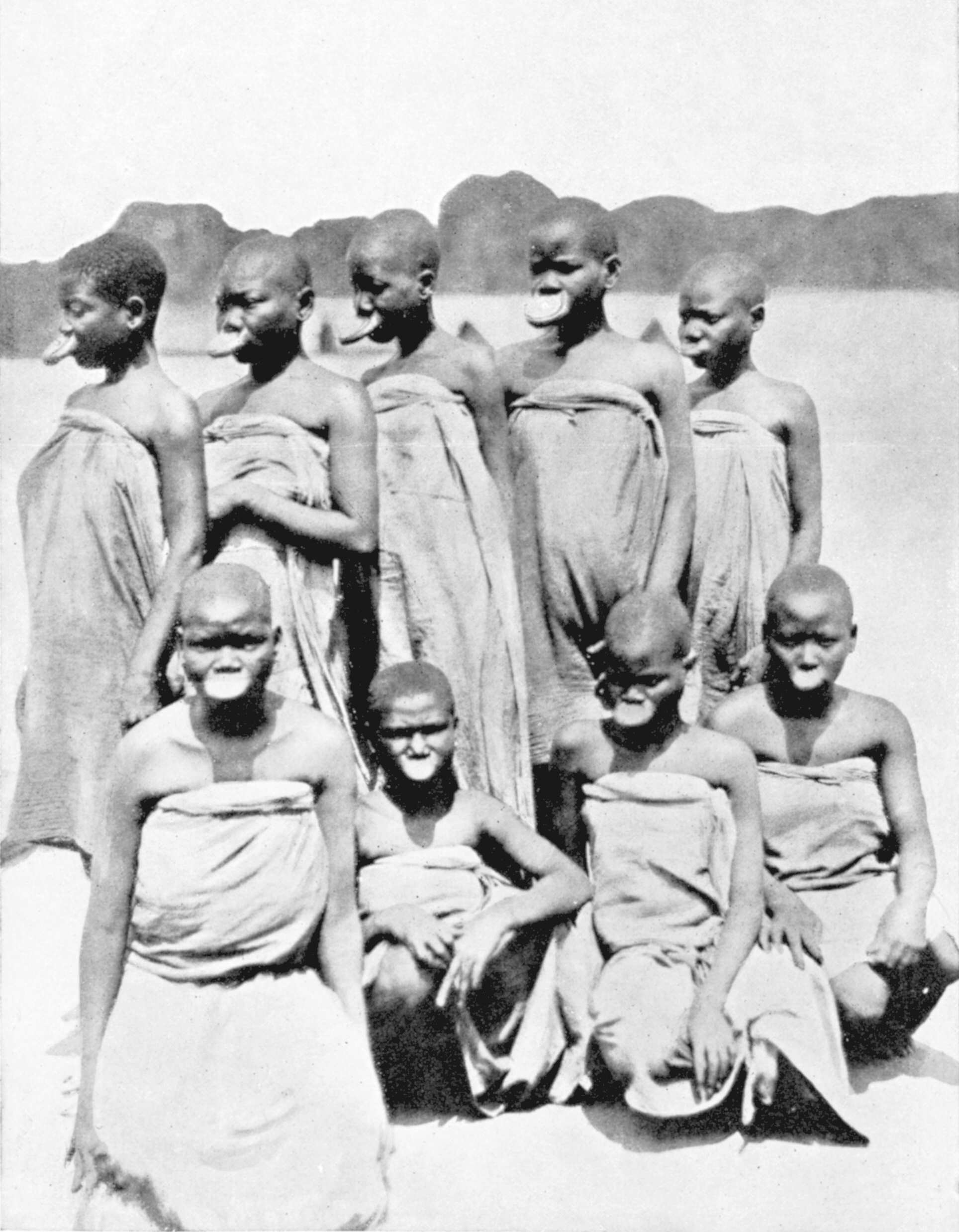 young Mobali women (North Congo) before 1910.